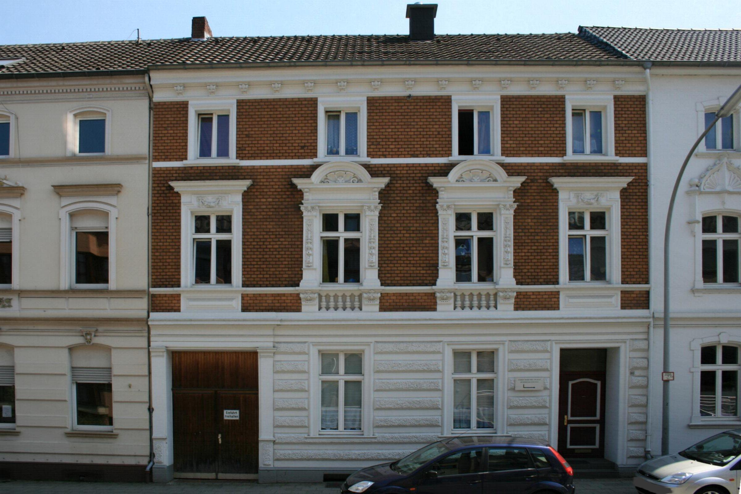 Cultural heritage monument No. Sch 014 in Mönchengladbach